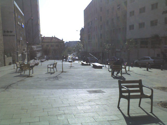 Hillel Street, Jerusalem, Kikar Roma looking eastward, view from Ha-Histadrut street. Red-roofed structure center left is the Italian Synagogue